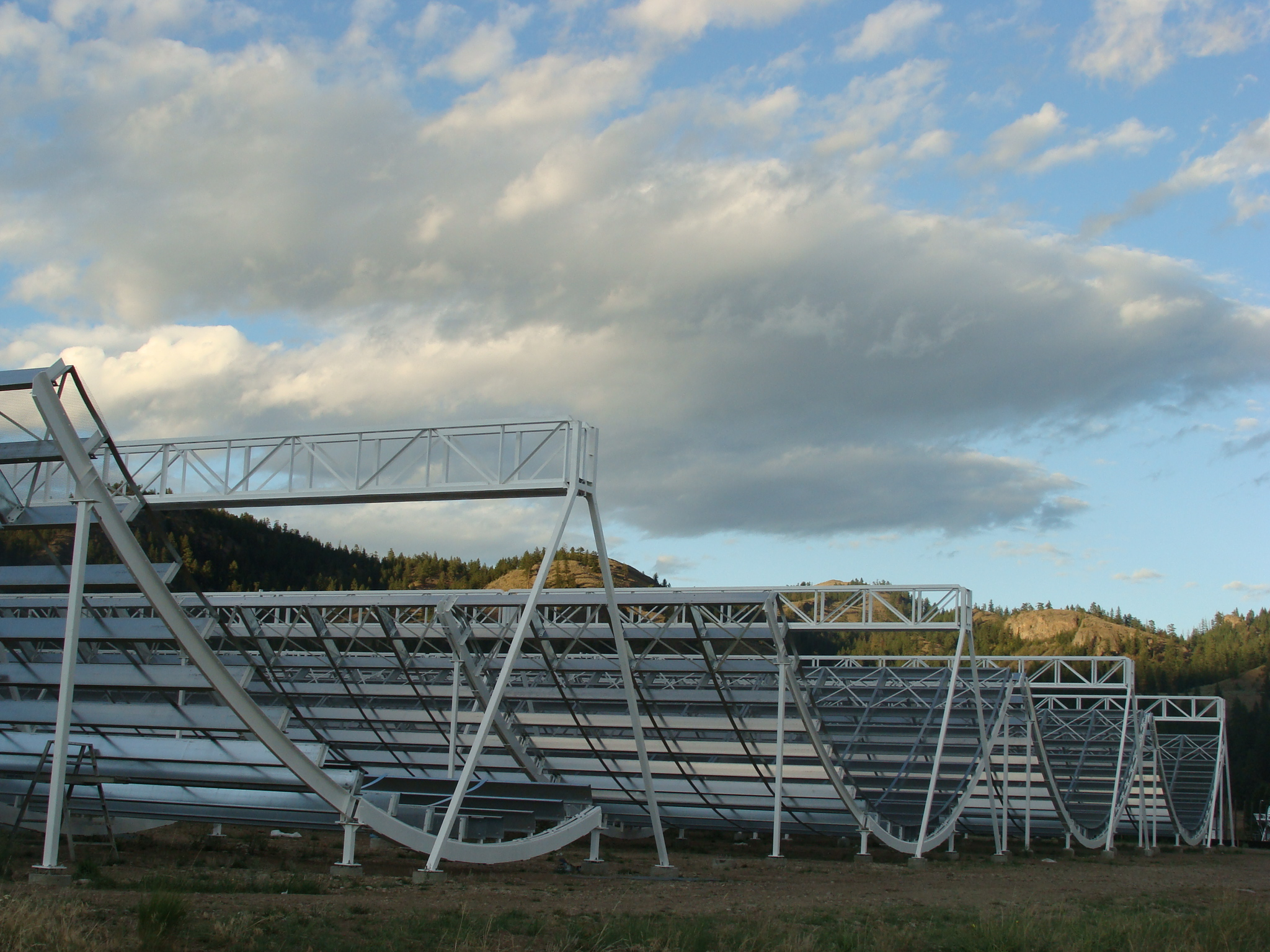 The Canadian Hydrogen Intensity Mapping Experiment during construction of the parabolic trough reflector at the Dominion Radio Astrophysical Observatory in British Columbia, Canada. Three and a half of the four cylinders have been completed.